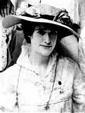 Adele Goodman Clark, cropped from a photograph that also depicts fellow suffragists Nora Houston (Clark's partner), Mae Schaill, and Mrs Frank Jobson.